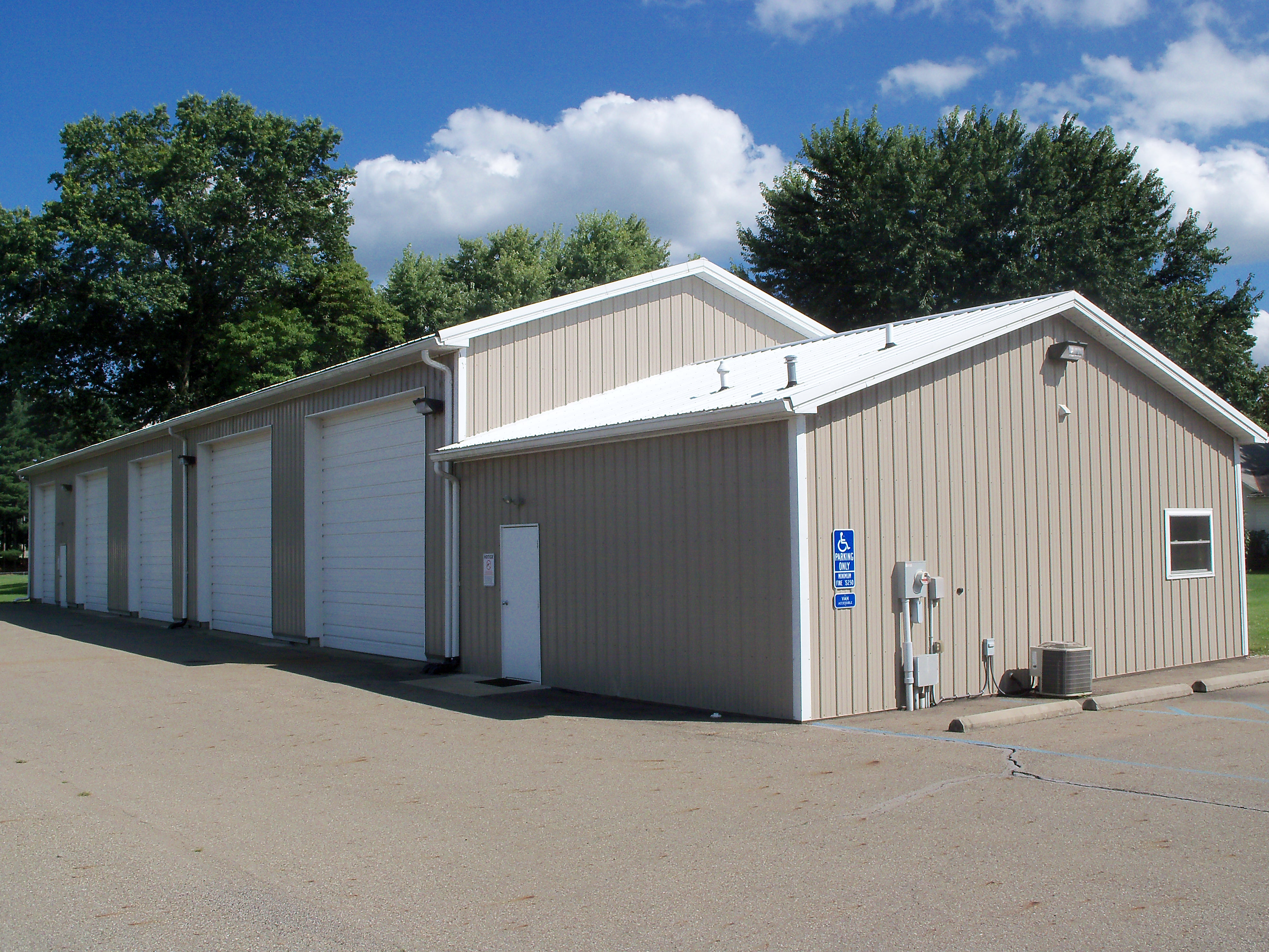 Meeting hall and garage for township noted in title